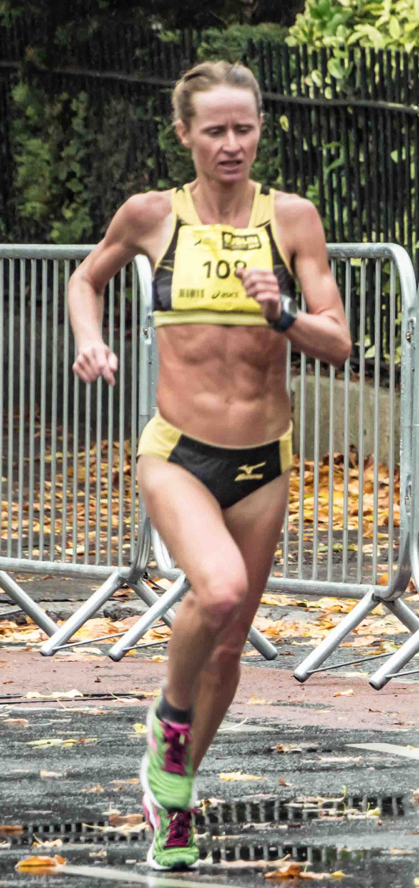 Samunnati (Nataliya) Lehonkova winner of the women in the Dublin Marathon in the year 2015.